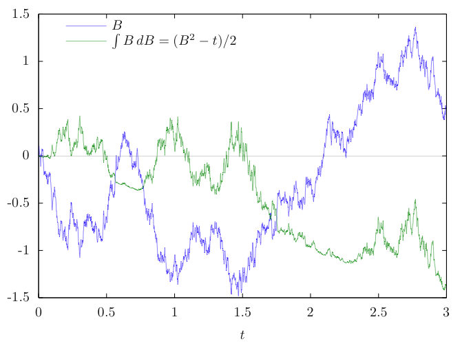 A plot of a sample path of a Wiener process, or Brownian motion, B, together with its Itō integral with respect to itself. Integration by parts or Itō's lemma shows that the integral is equal to (B2 - t)/2.